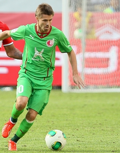 Dmitri Torbinski with FC Rubin Kazan in 2013.